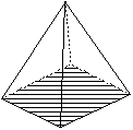 Mahlerite, figure drawn with OpenOffice 2.0